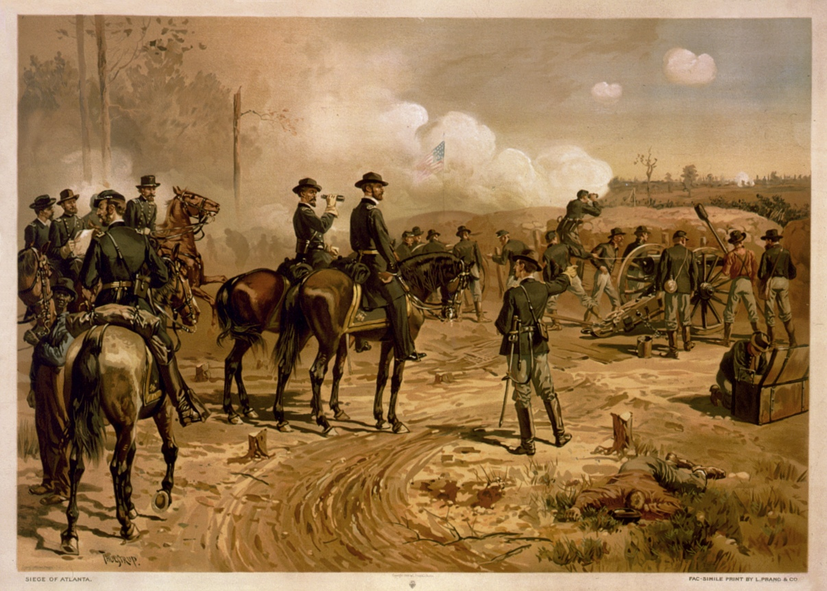 showing the Union Soldiers.